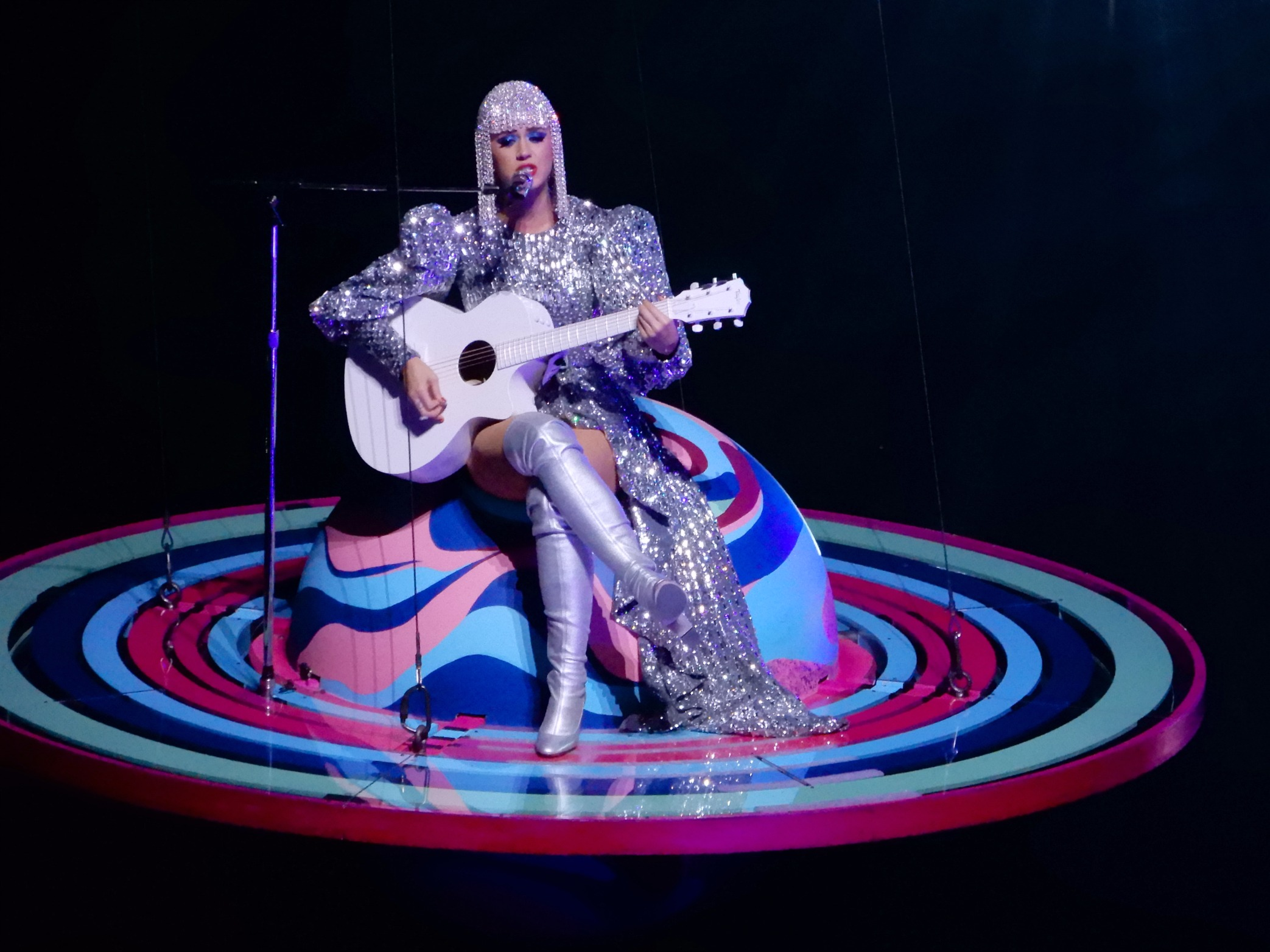 Katy Perry at Madison Square Garden